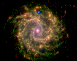 Image of the NGC 3184 galaxy in Infrared at 3.6 (blue), 8.0 (green) and 24 (red) µm. The image has been made by myself (Médéric Boquien) from the data retrieved on the SINGS project public archives of the Spitzer Space Telescope (courtesy NASA/JPL-Caltech)